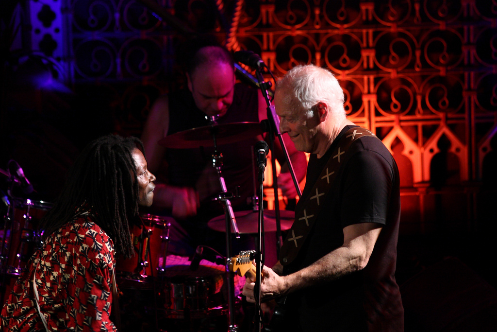 David Gilmour on the Crisis "hidden" Gig at the Union Chapel in 2009.